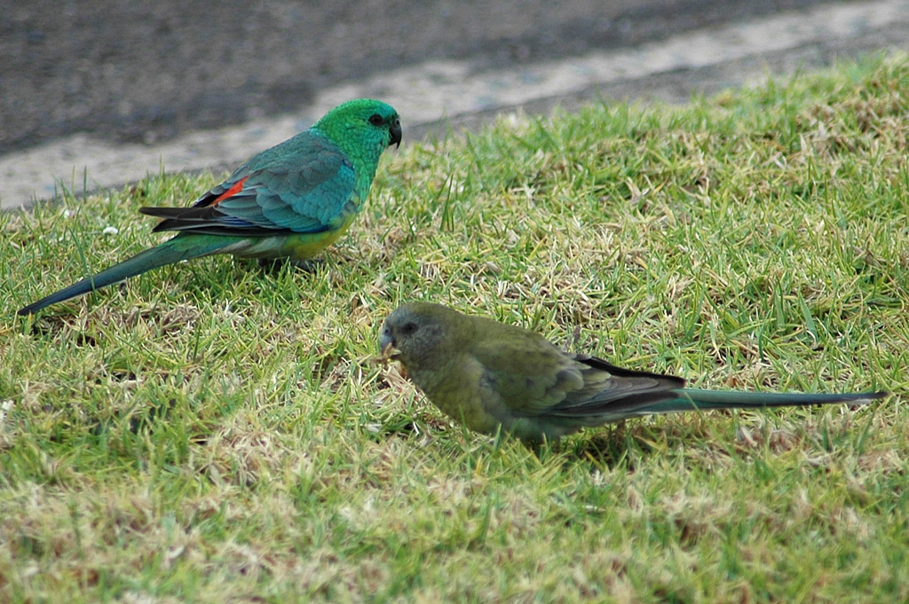 Bird, Red-rumped Parrot, Psephotus haematonotus, male and female